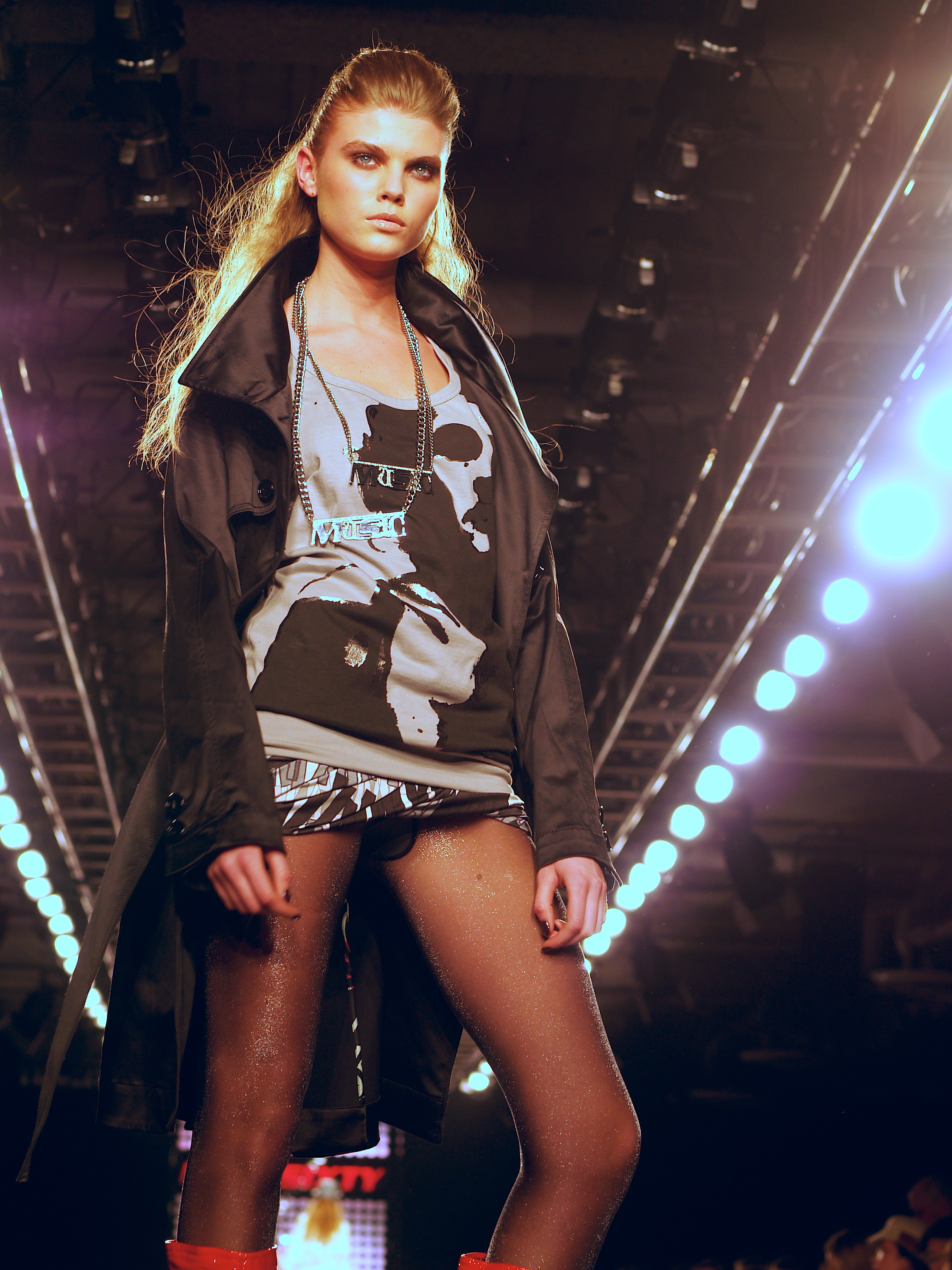 Maryna Linchuk modeling for Miss Sixty, Fall 2007 New York Fashion Week.